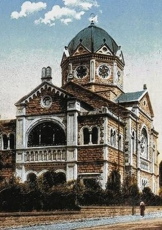 New synagogue in Bad Kissingen, built by architect Carl Krampf (Bad Kissingen) in 1902, destroyed November 9th, 1938